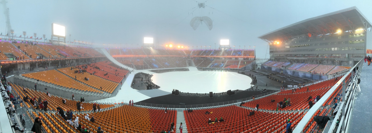 Pyeongchang Olympic Stadium where 2018 Winter Paralympics opening ceremony is held, taken in March 9, 2018.